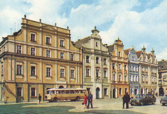 Opole's town square rebuilt after the war.